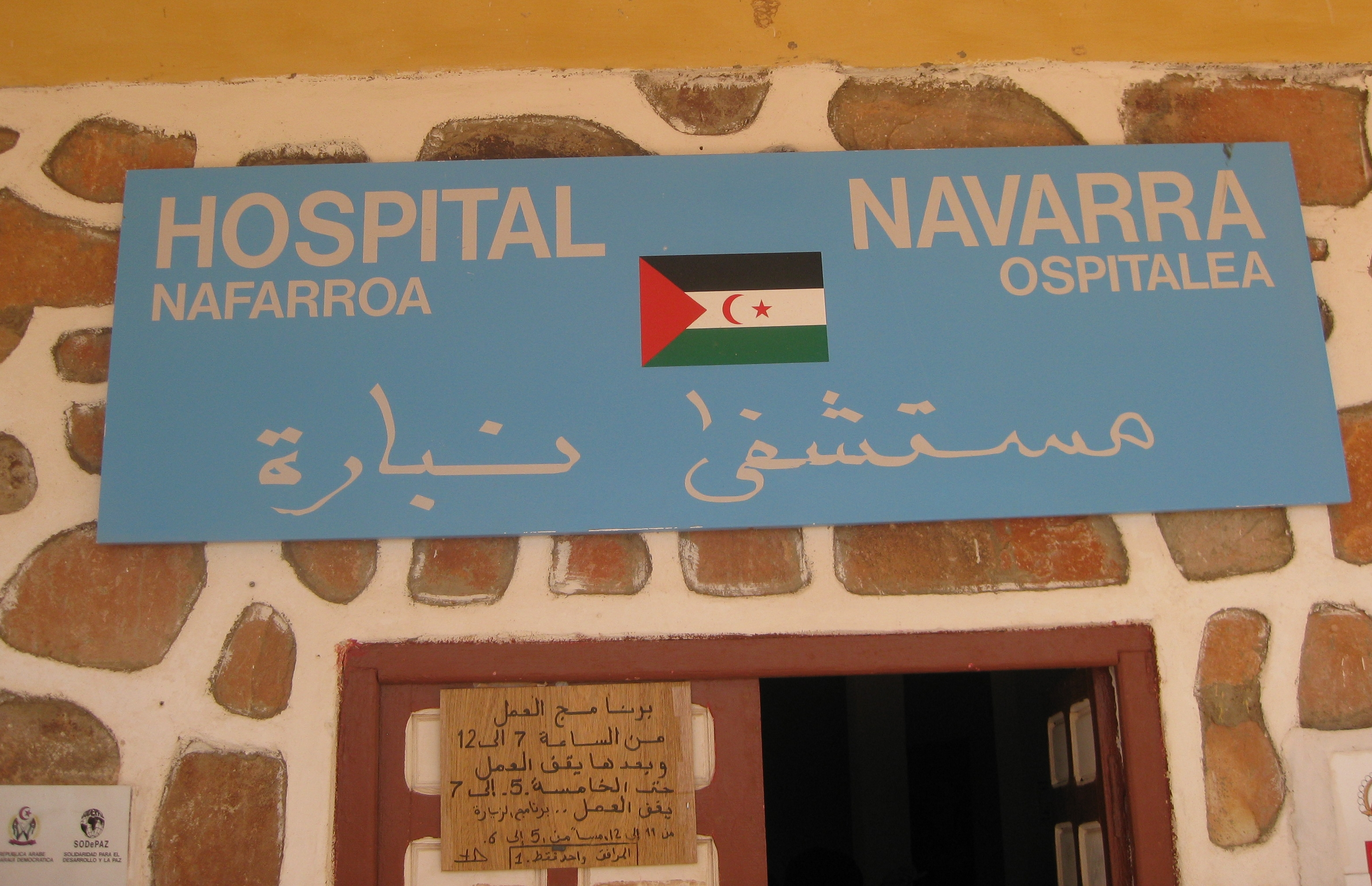 Entrance of the hospital in Tifariti, Western Sahara. This is trilingual: Spanish, Basque, Arabic. In the center the flag of the Western Sahara Republic. Taken in August 2009.